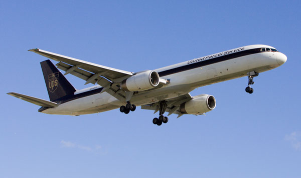 A UPS Boeing 757 (N452UP) on final for runway 17R at Louisville International Airport in Louisville, Kentucky.